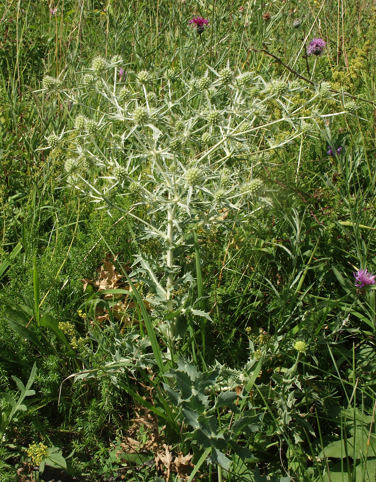 Eryngium campestre, Tauberland, Germany